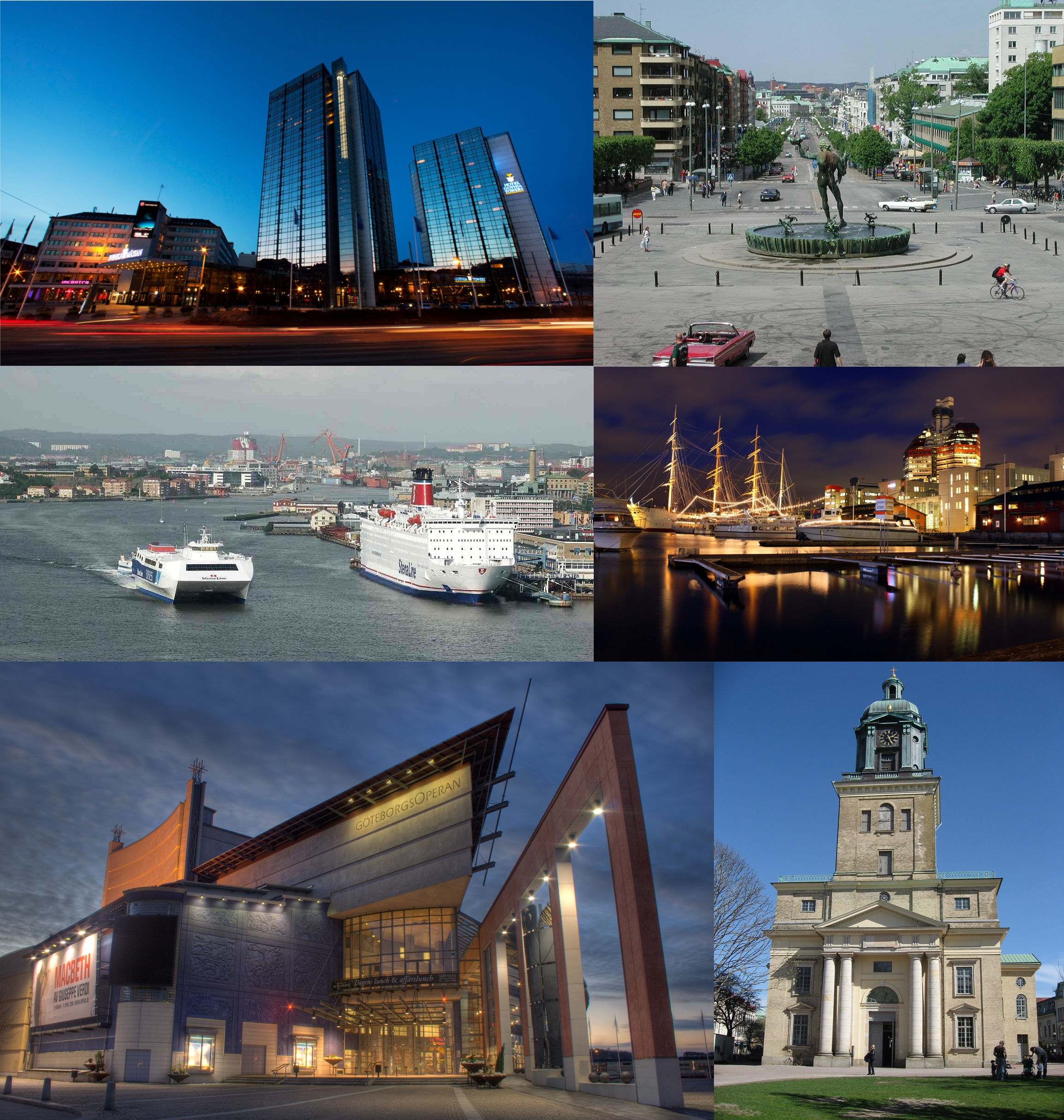 Montage of various Gothenburg images